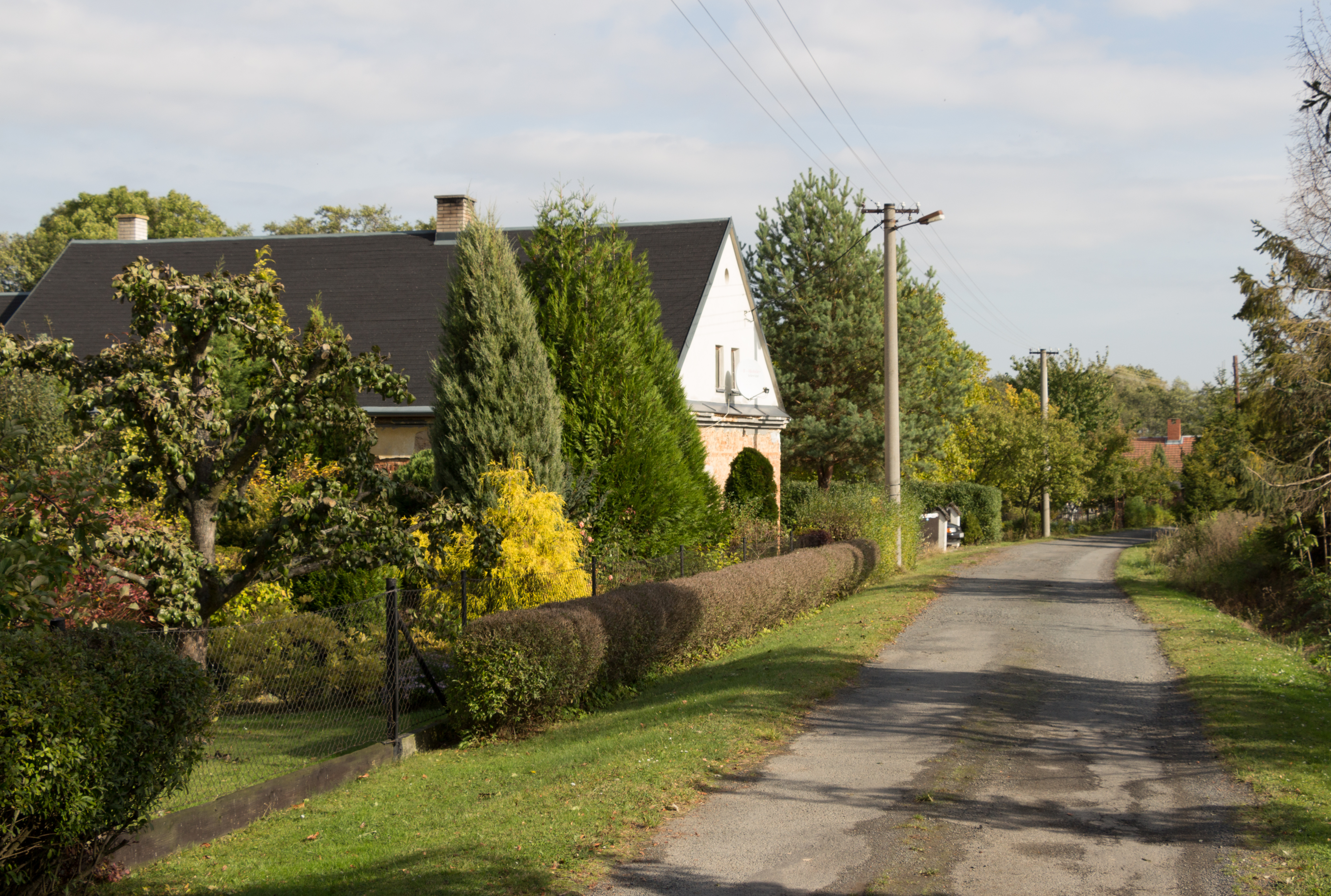 Kolná (Brumovice), Opava District, Czech Republic